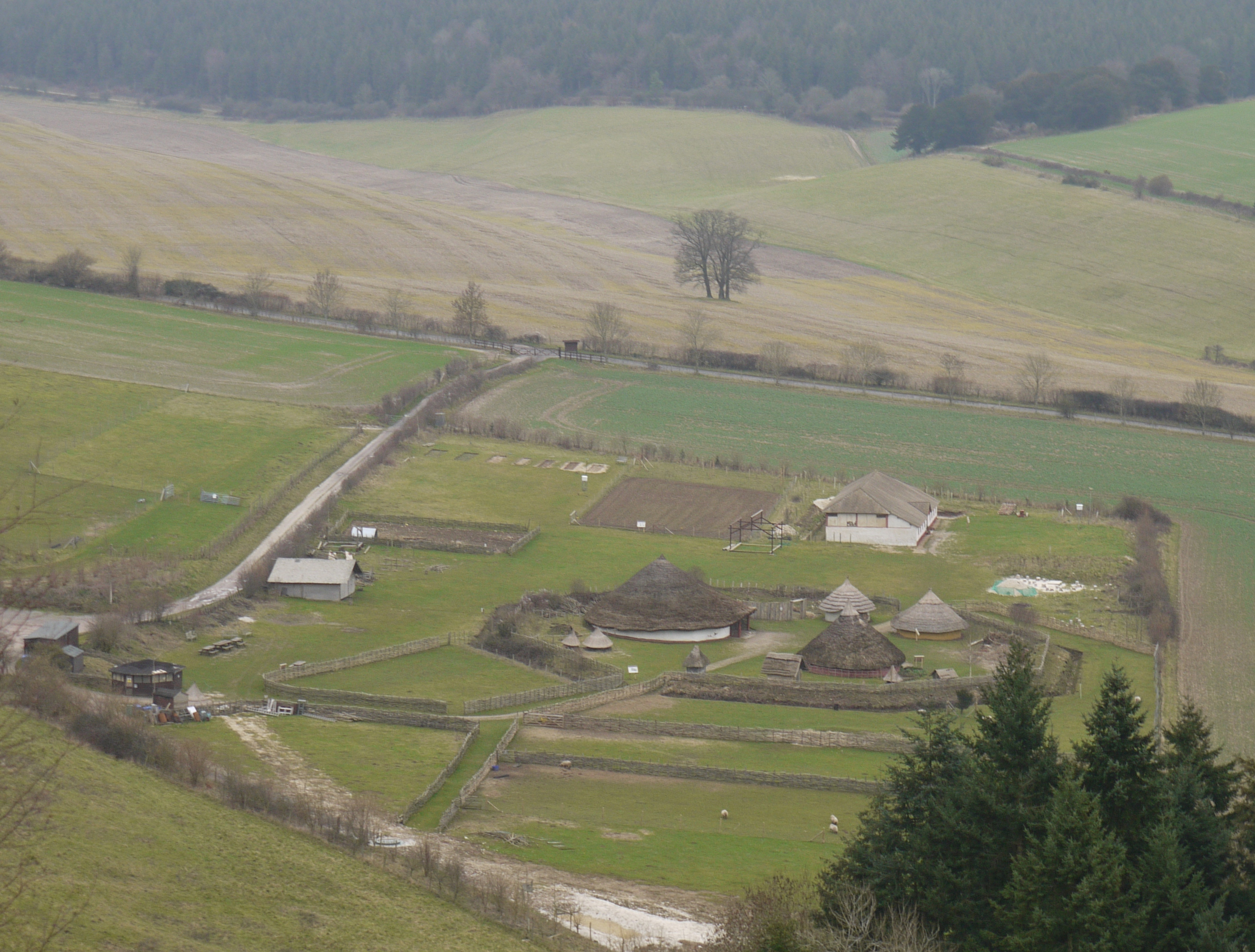 Photo of the third site of Butser Ancient Farm taken from windmill hill